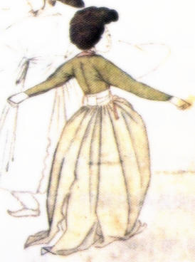 A part of a painting drawn by Shin Yun-bok.